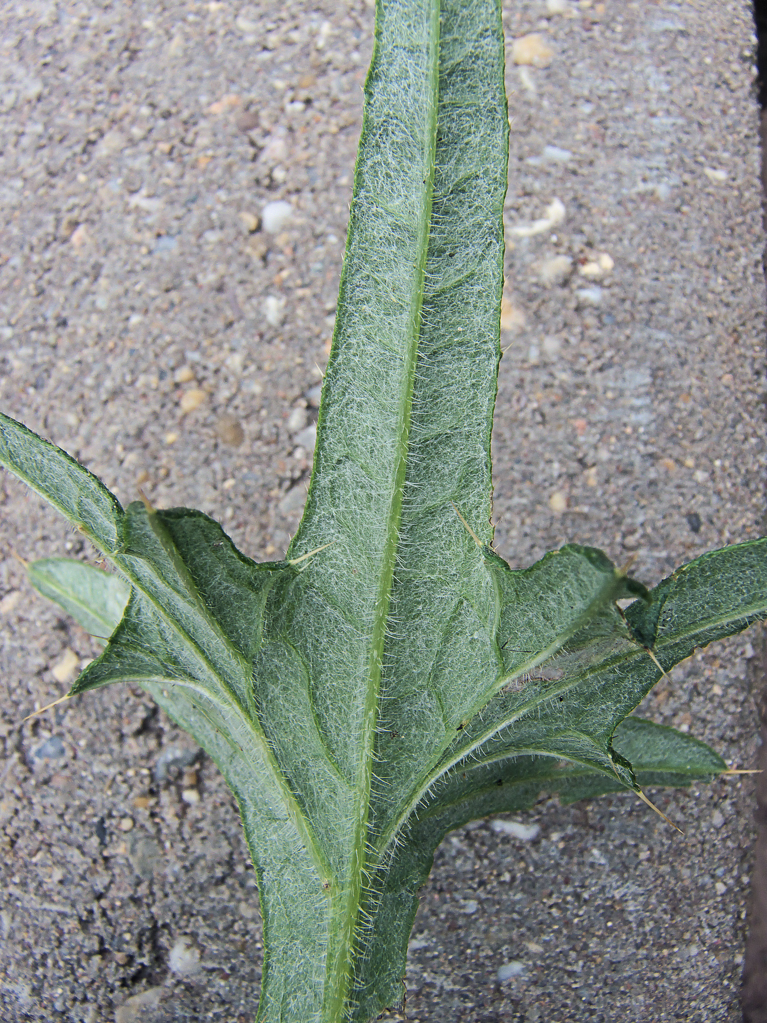 Cirsium vulgare backside leave